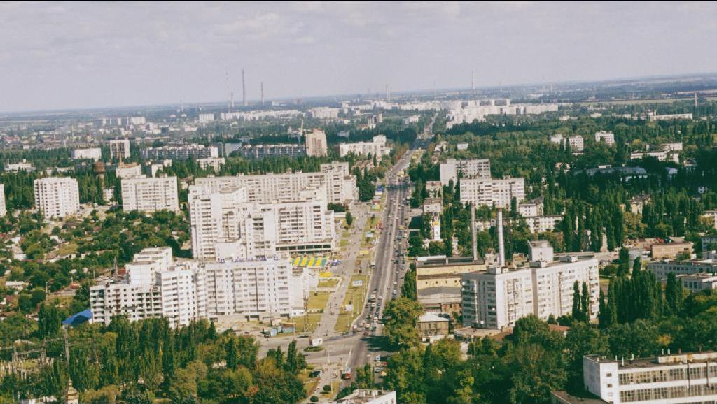 моя фото